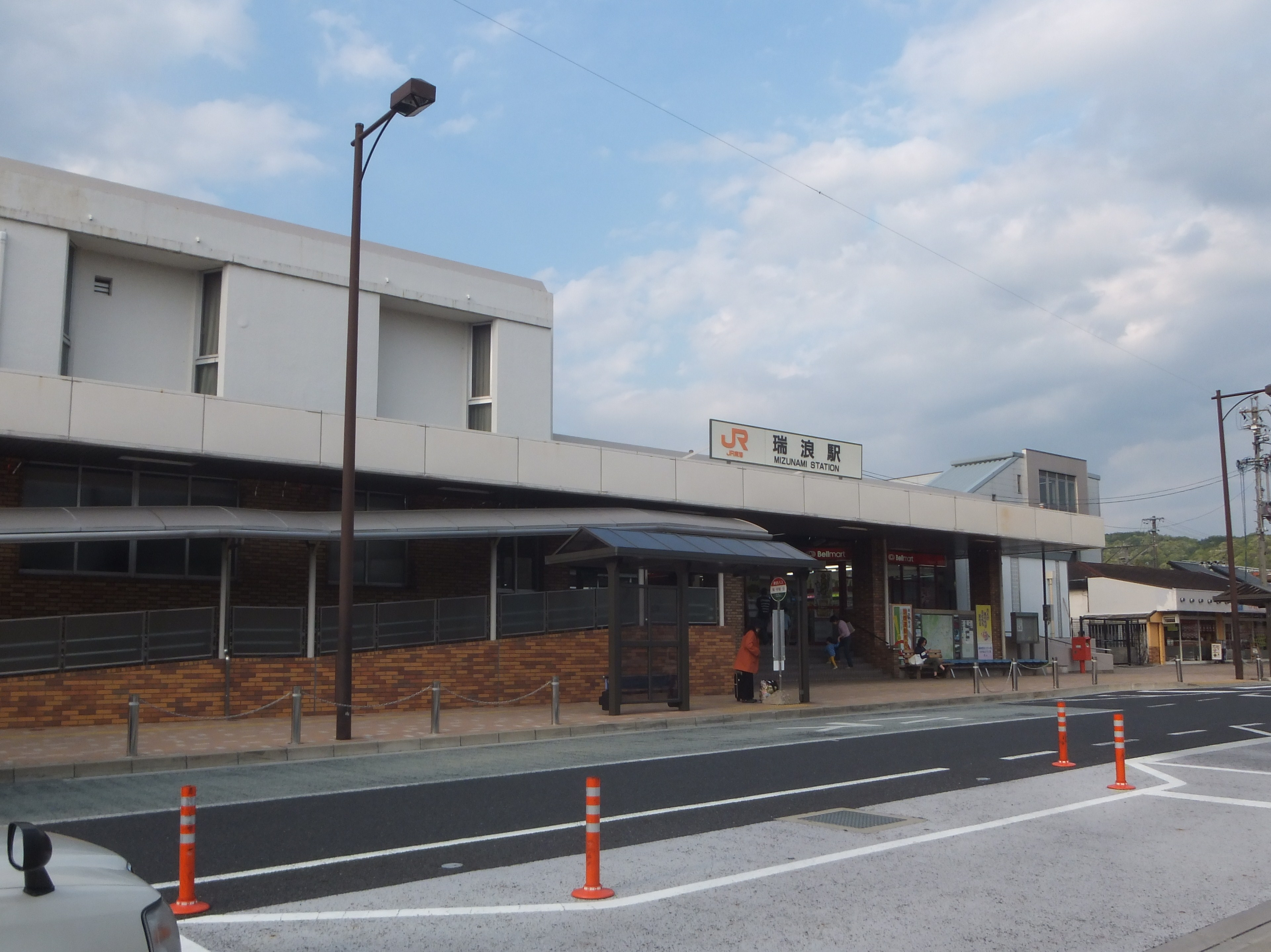 Mizunami Station on the JR Central Chuo Main Line